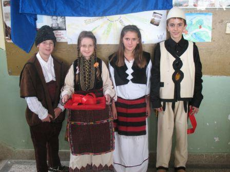 Traditional macedonian and albanian man and woman clothes from Radiovce, Republic of Macedonia